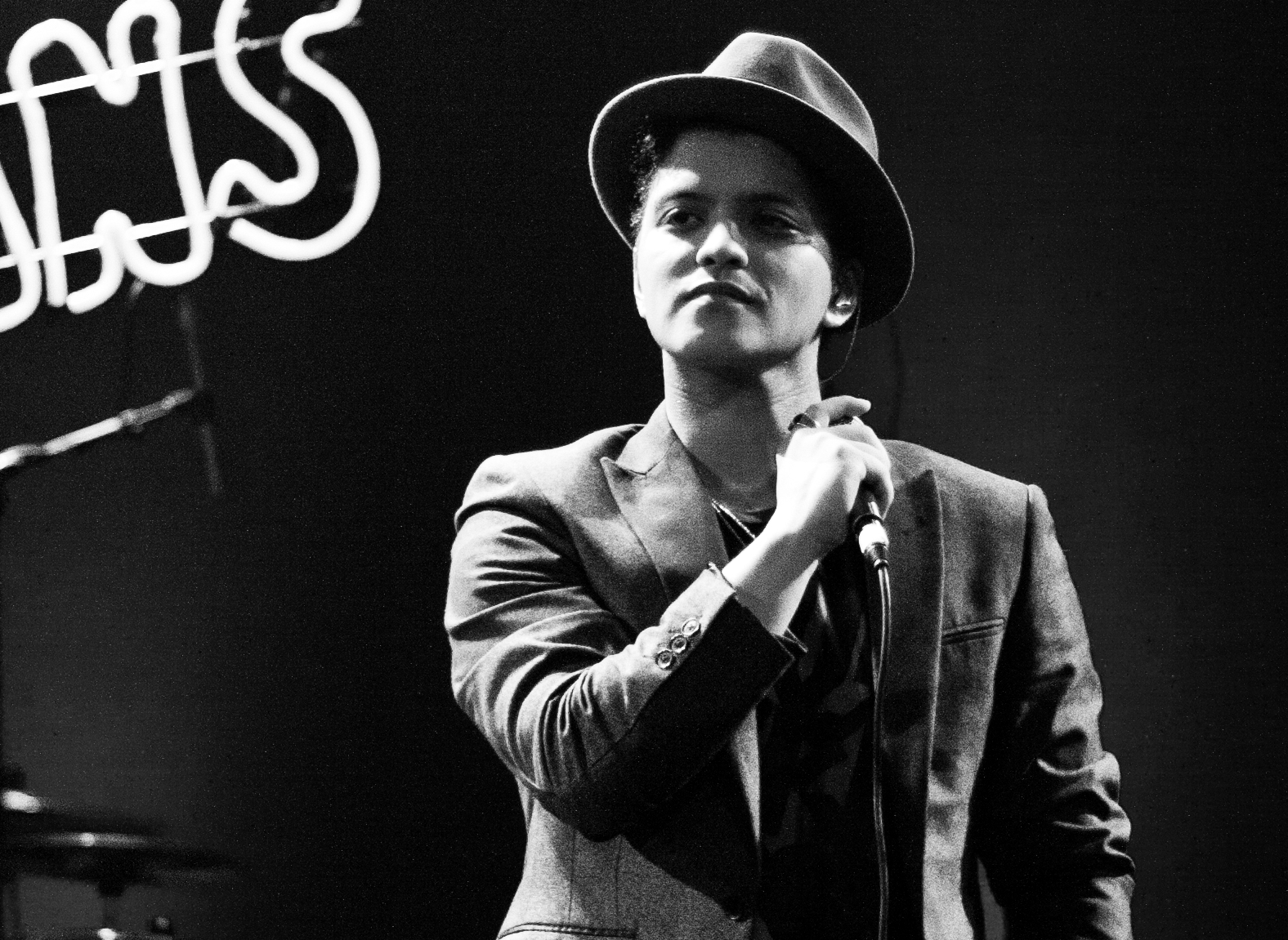 Bruno Mars performing in Houston, Texas on November 24, 2010